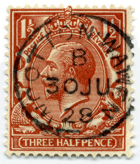 Scan of United Kingdom 1 1/2-pence stamp of 1912